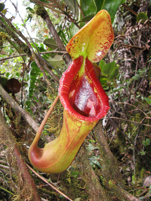 N.trusmadiensis